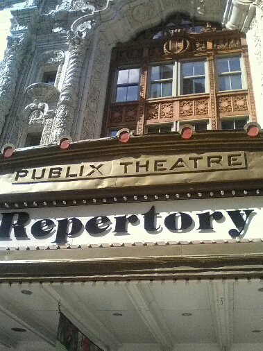 Photograph of the "Publix Theatre" sign on Indiana Repertory Theatre